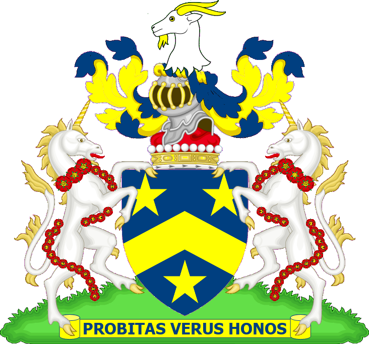 The armorial achievement of The Viscount Chetwynd